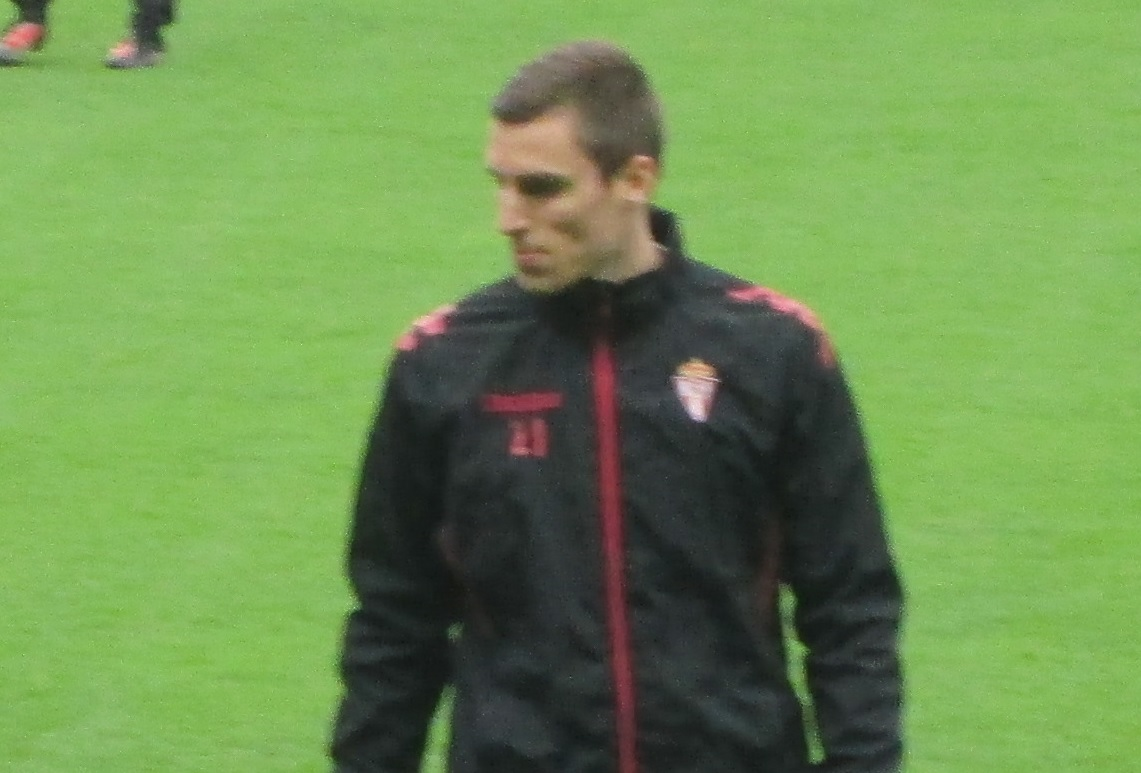 Ognjen Vranješ, warming up for Sporting GIjón